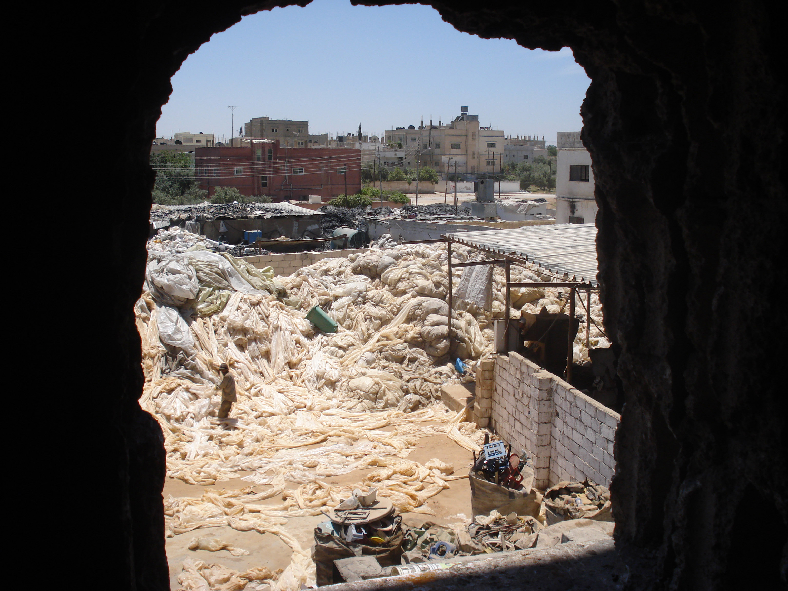 The photograph was taken during a recycling project in Jordan. The factory in the picture is situated a few km outside Amman and is recycling scrap plastic. The working conditions witnessed through a shop window are quite shocking and put western manufacturing into perspective. These men are usually Egyptian immigrants who work for a few hundred pounds a month in a dangerous working environment, full of toxic fumes where they are required to carry out hard manual tasks.